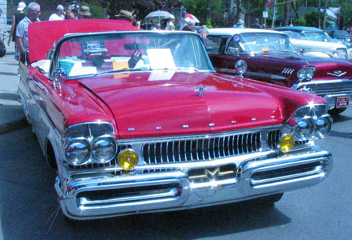 1957 Mercury Turnpike Cruiser photographed in Laval, Quebec, Canada at the Auto classique Laval.